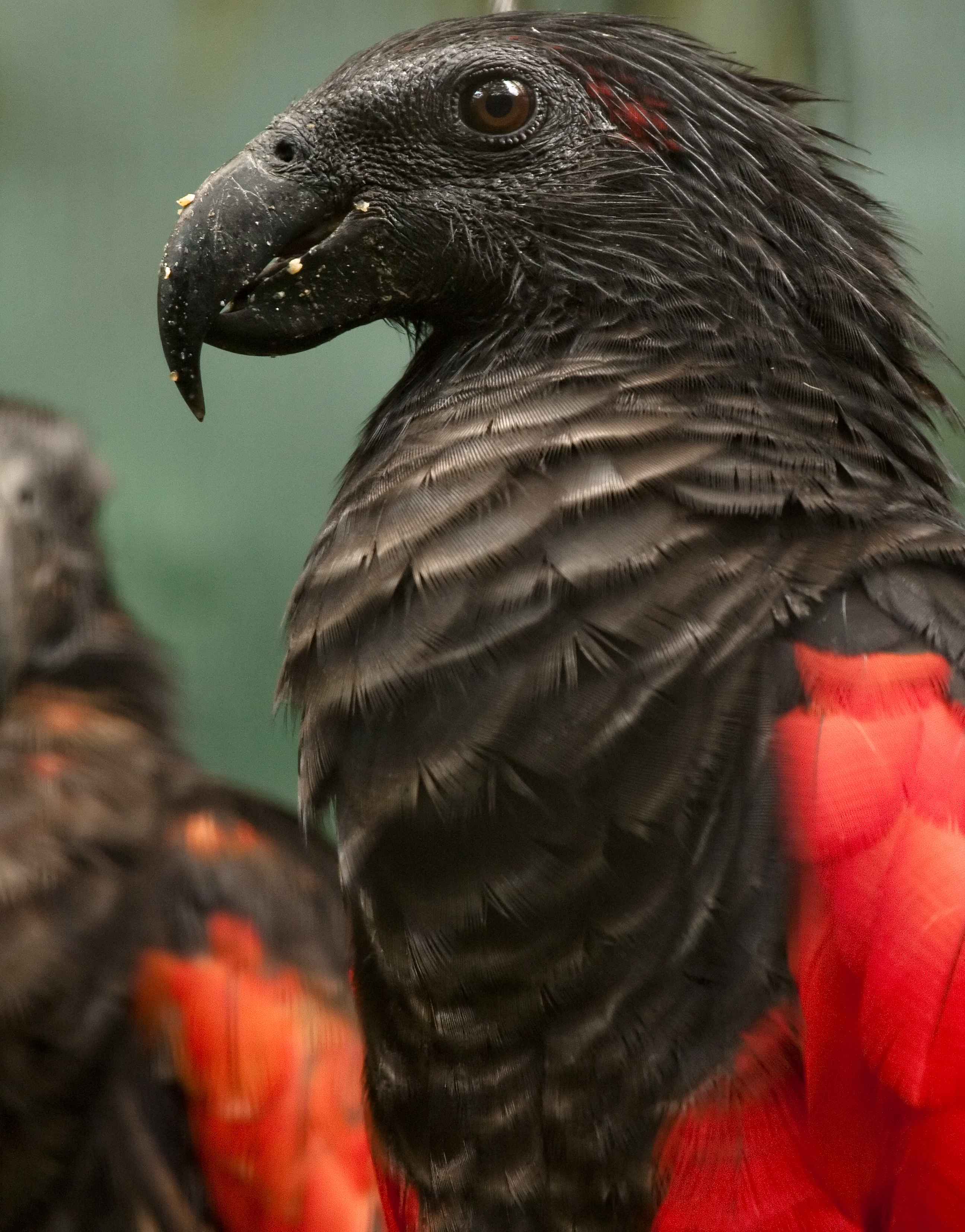 Pesquet's Parrot at Jurong Bird Park, Singapore.